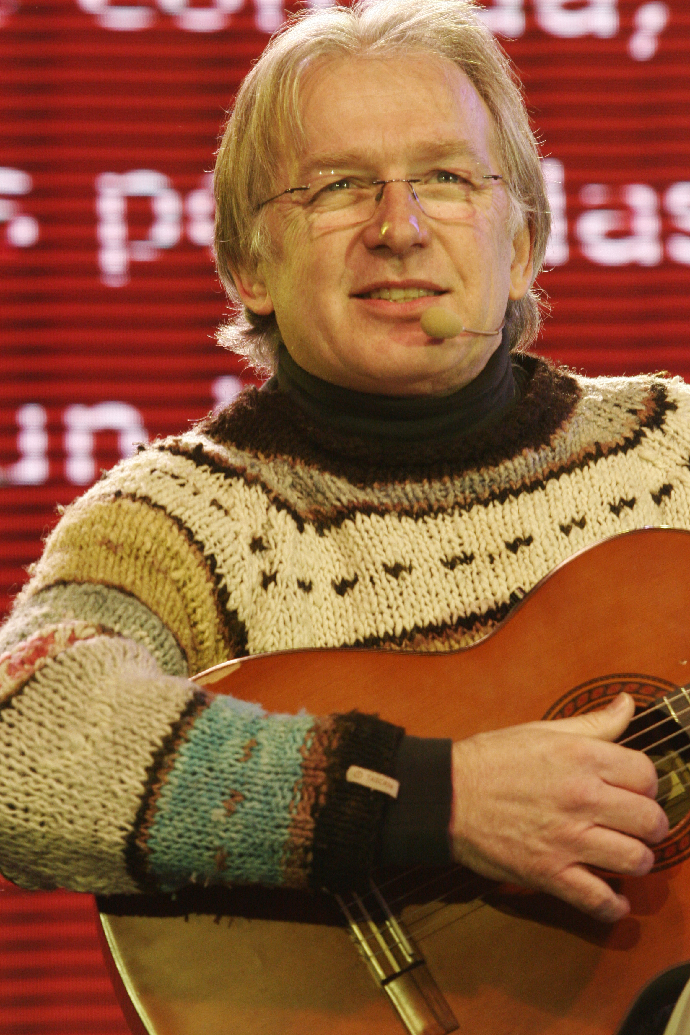 Argentine singer/songwriter Luis Pescetti at the 2011 Tecnópolis fair, in Villa Martelli. Photo: Laura Szenkierman/Tecnópolis.